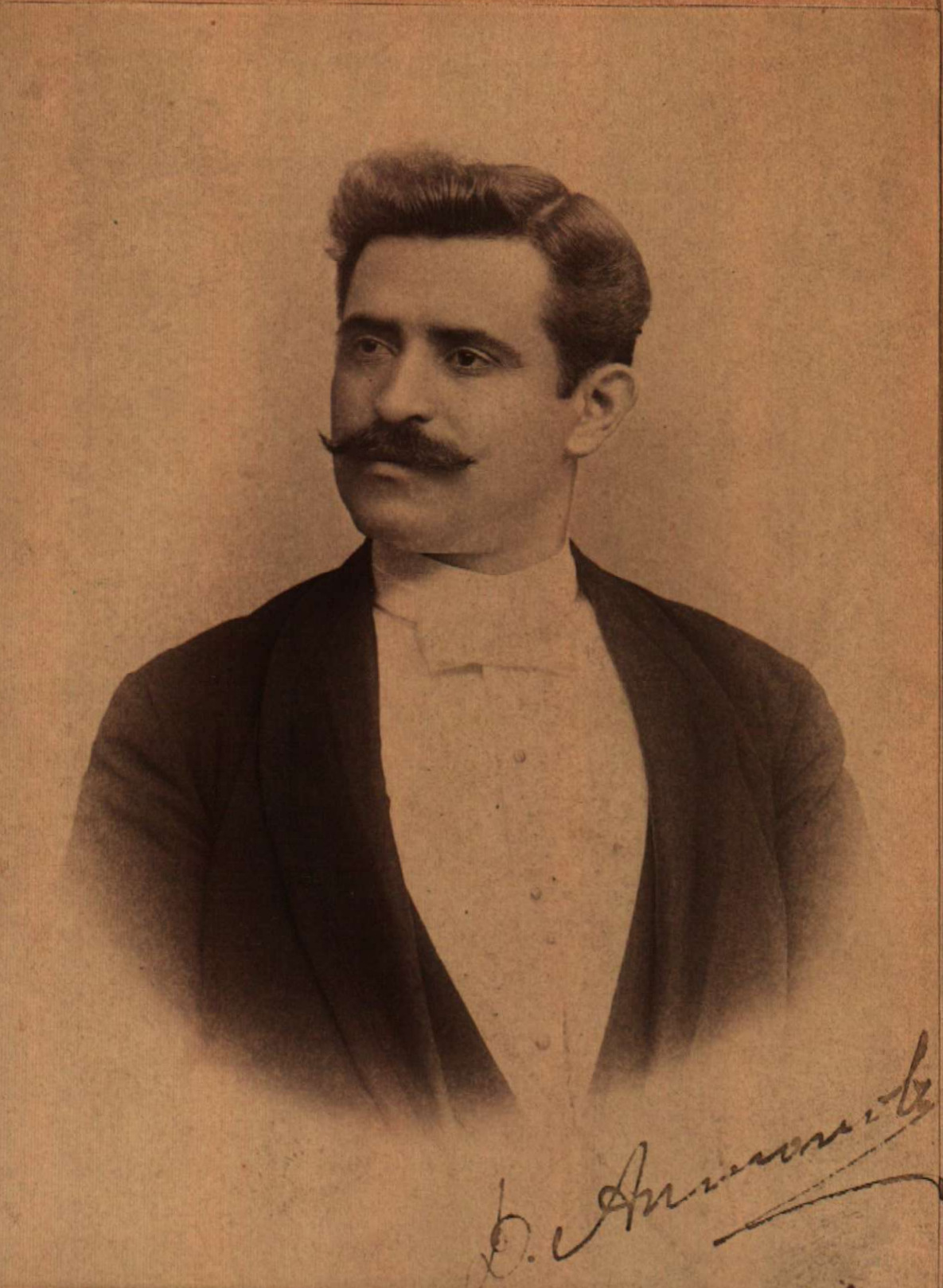 Bulgarian actor Dimitar Antonov (1859-1904)